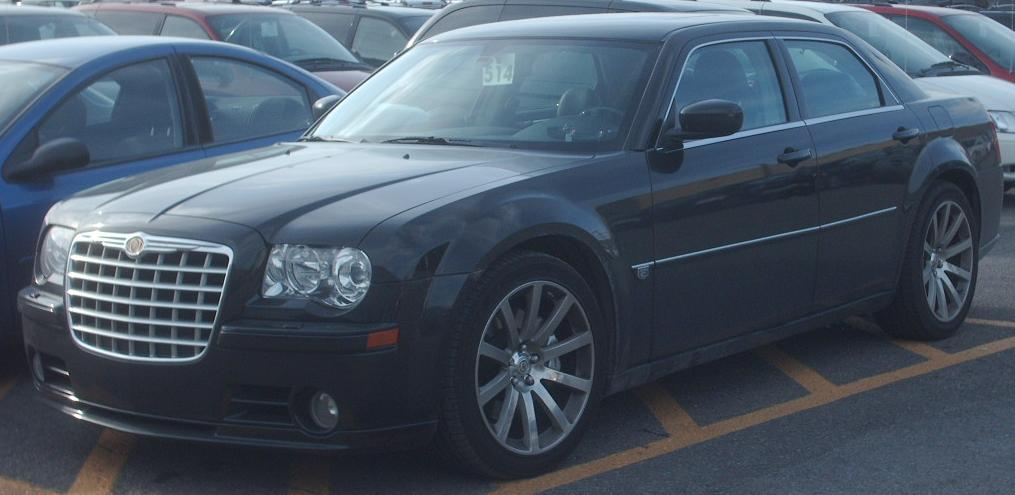 2005-2008 Chrysler 300 Hemi C photographed in Montreal, Quebec, Canada.